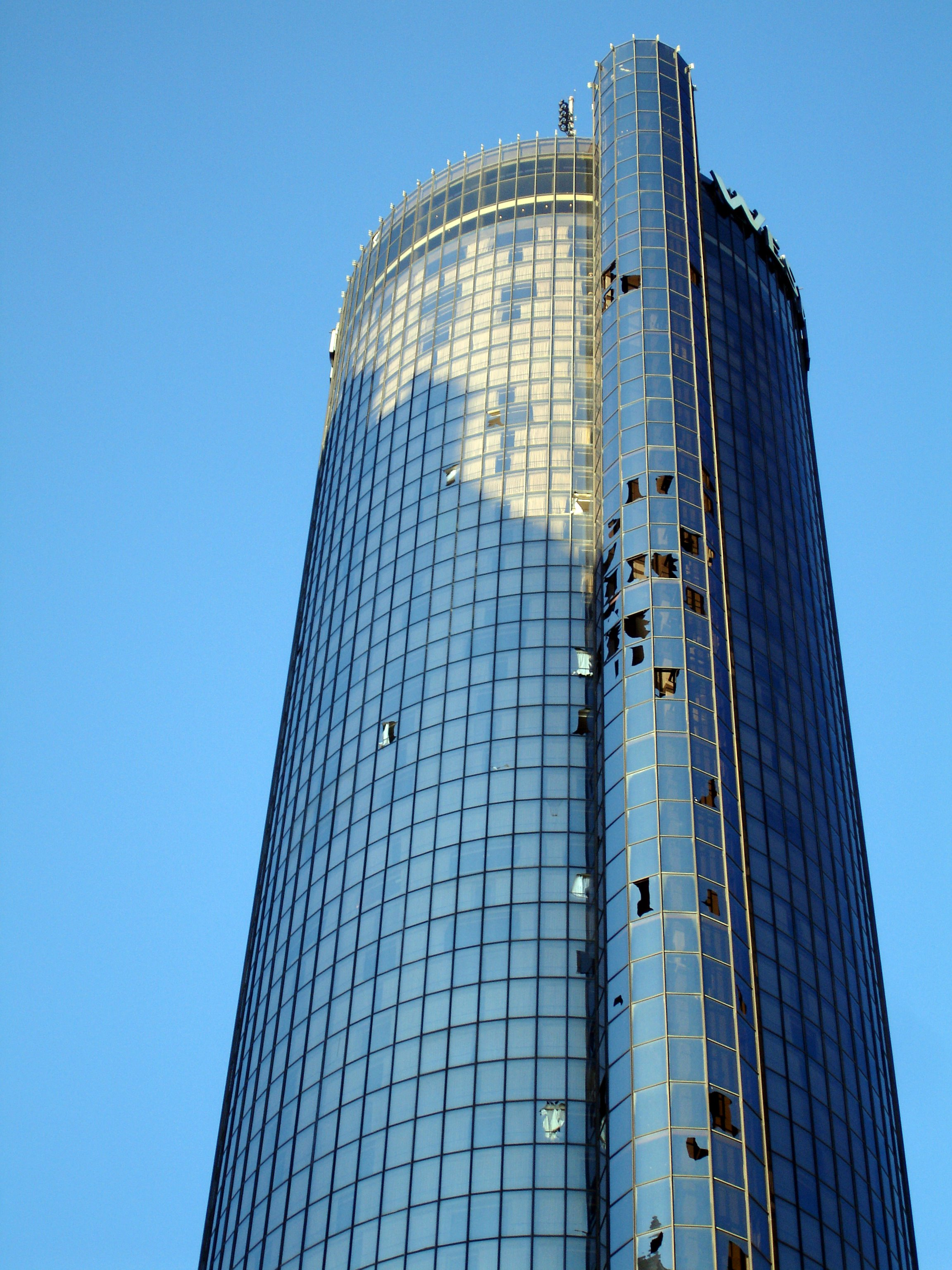 Damage to the Westin Peachtree Plaza Hotel during the 2008 Atlanta tornado outbreak.